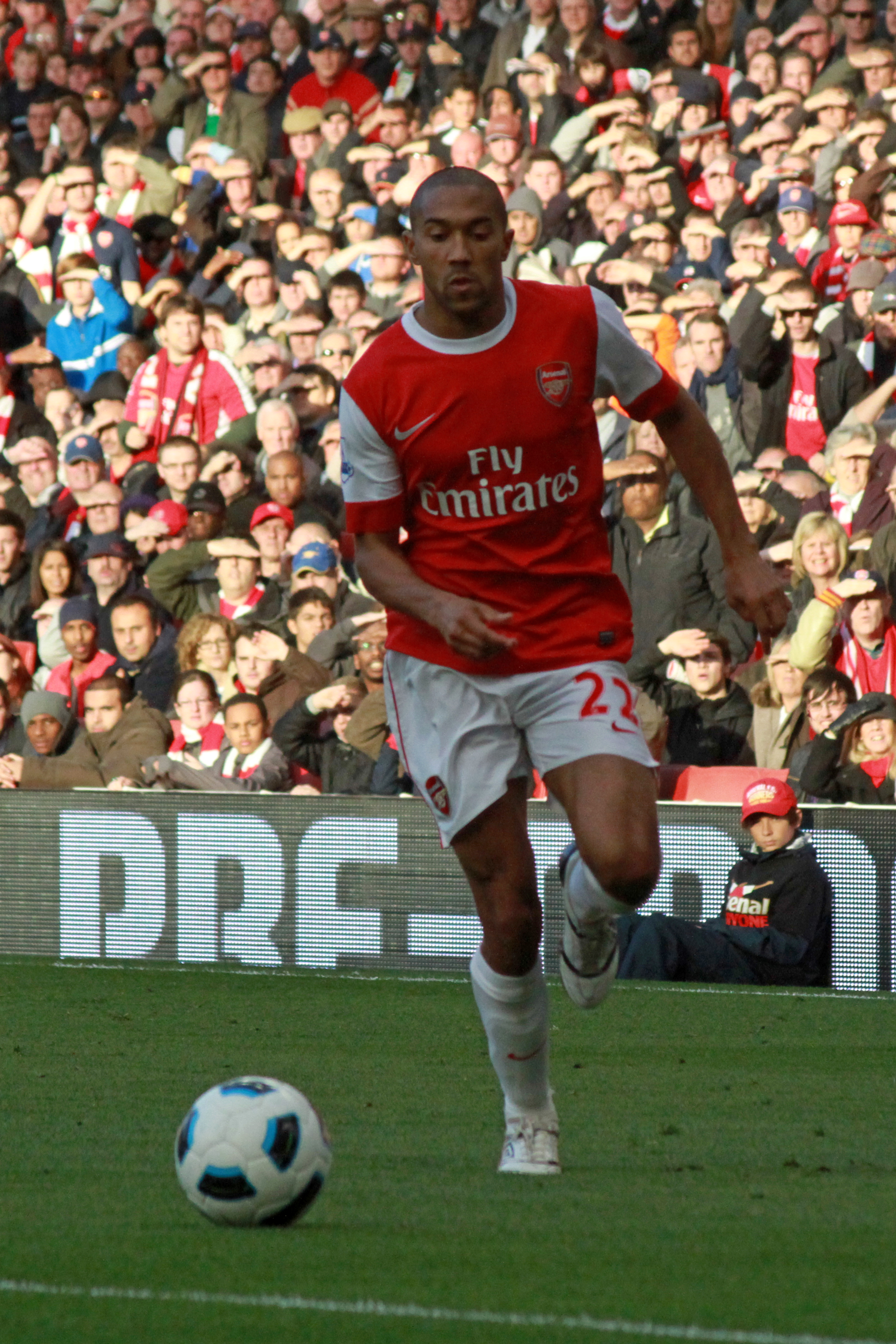 Arsenal v Birmingham City The Emirates 16 October 2010 (2-1)